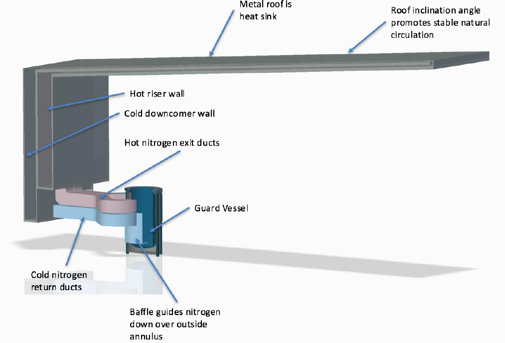 Description of the IMSR passive closed cooling system, IRVACS